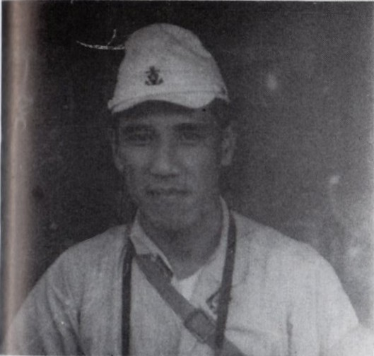 Nakajima Chikataka is an Imperial Japanese Navy commander